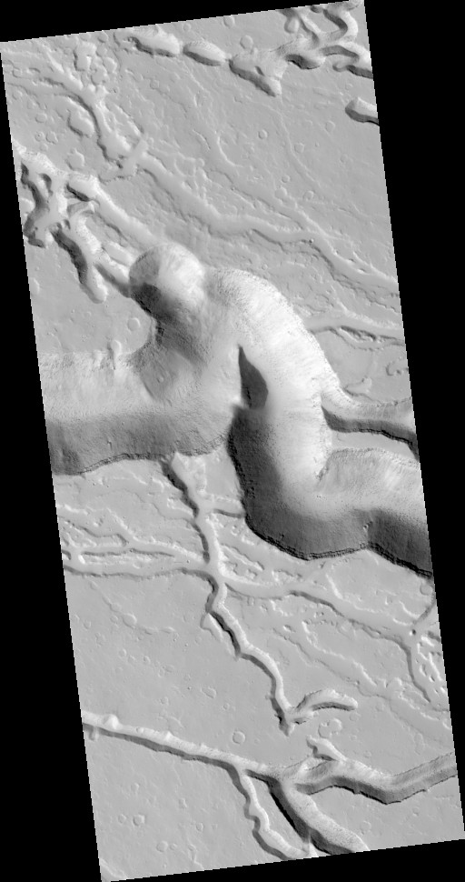 Wide view of Iberus Vallis, as seen by hirise. Location is 21.4 N and 151.8 E.